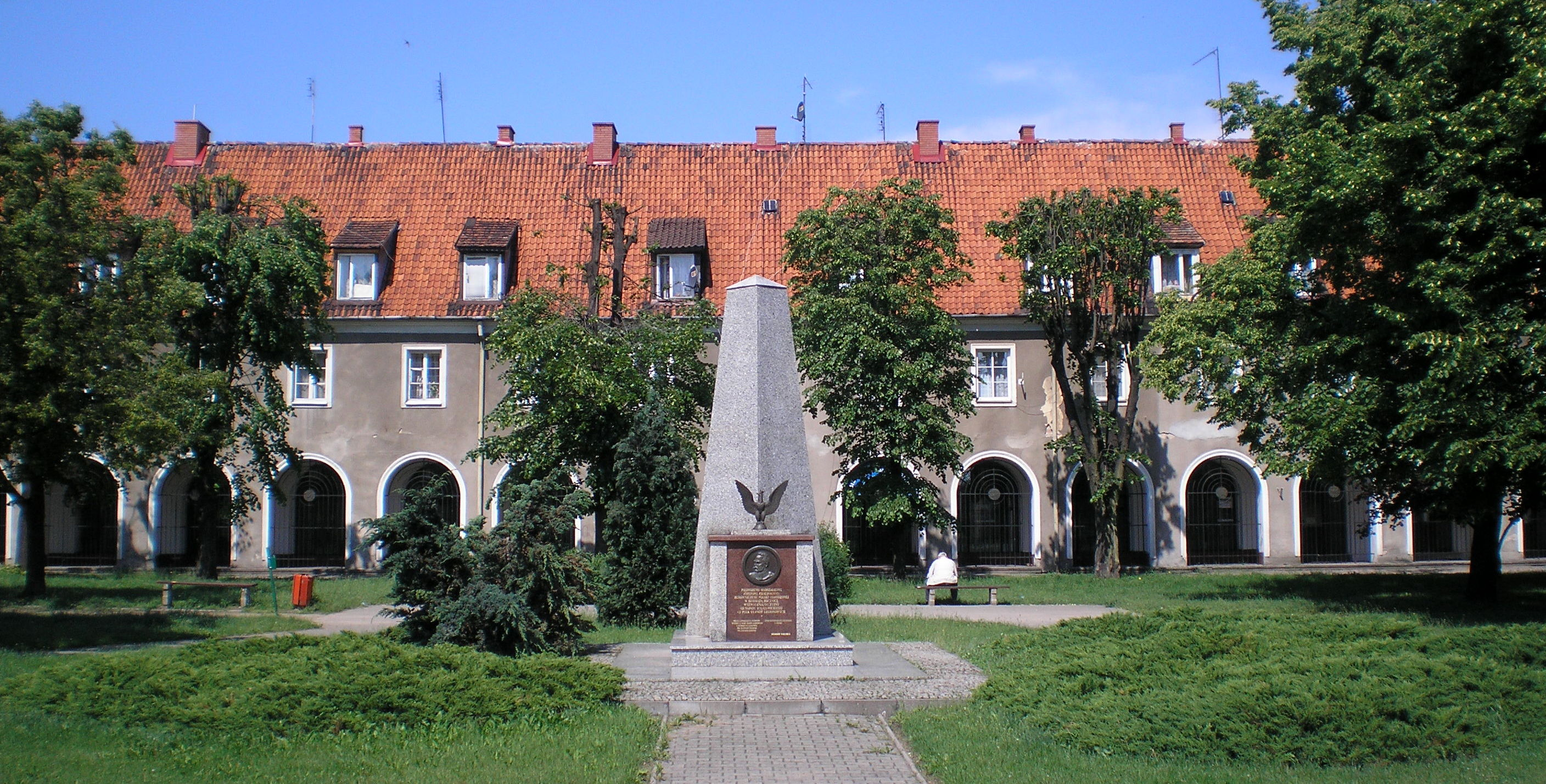 Crooked Hall in Ciechanów